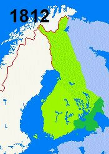 Border changes in Finland 1812